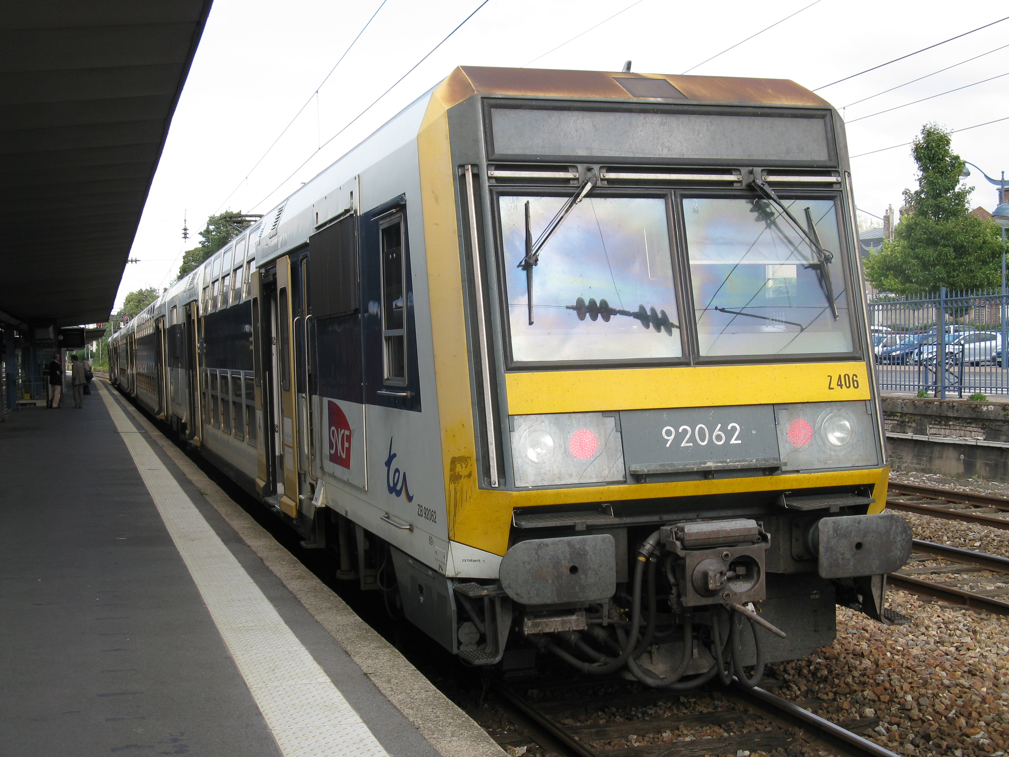 A Z 92050 trainset at Arras